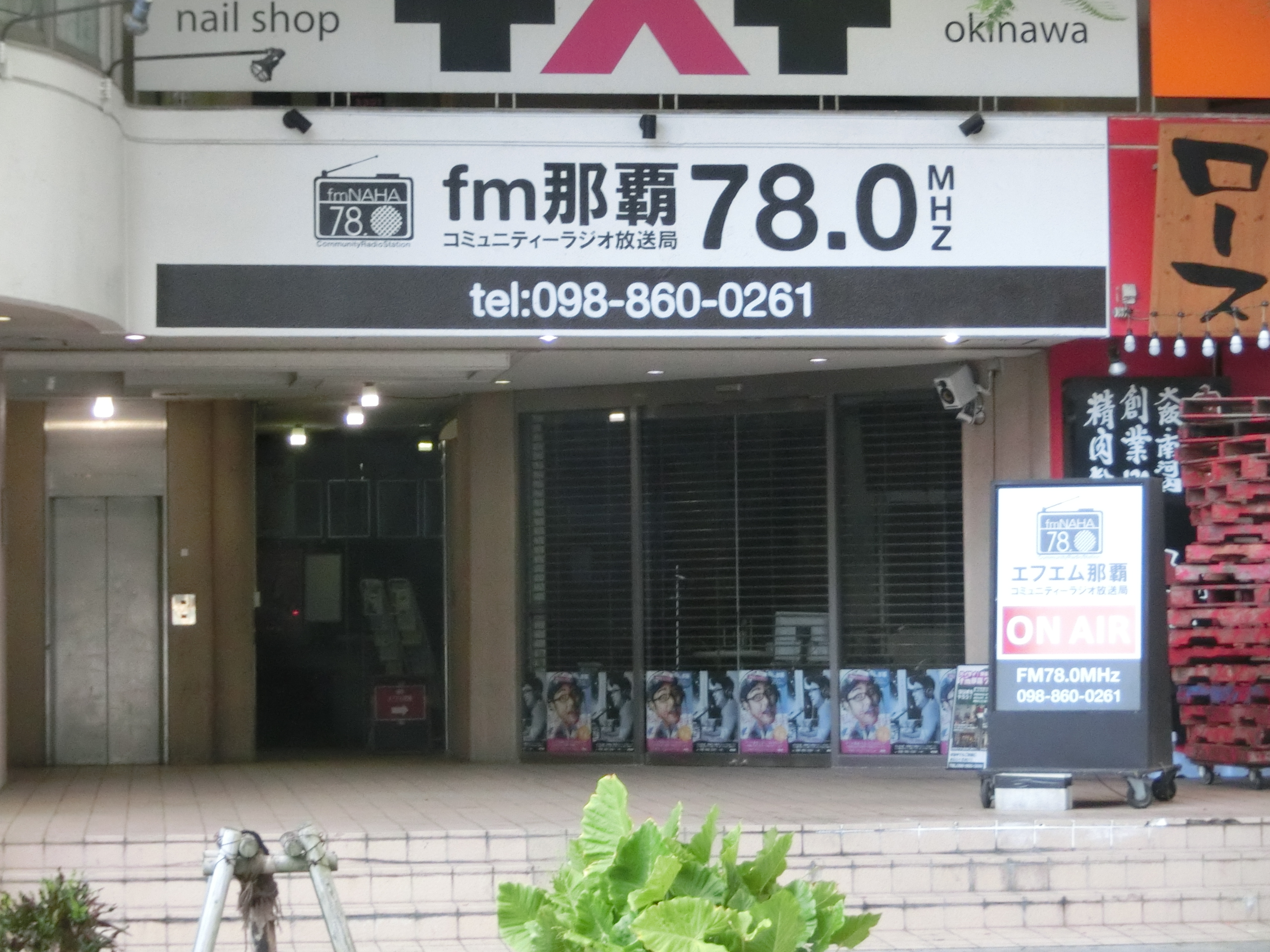 FM Naha Station